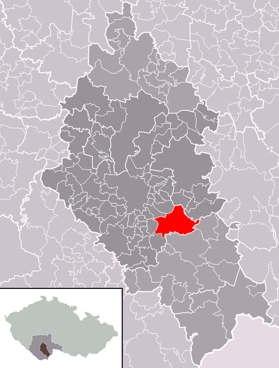 Location of Ledenice municipality within České Budějovice District and administrative area of České Budějovice as a Municipality with Extended Competence.